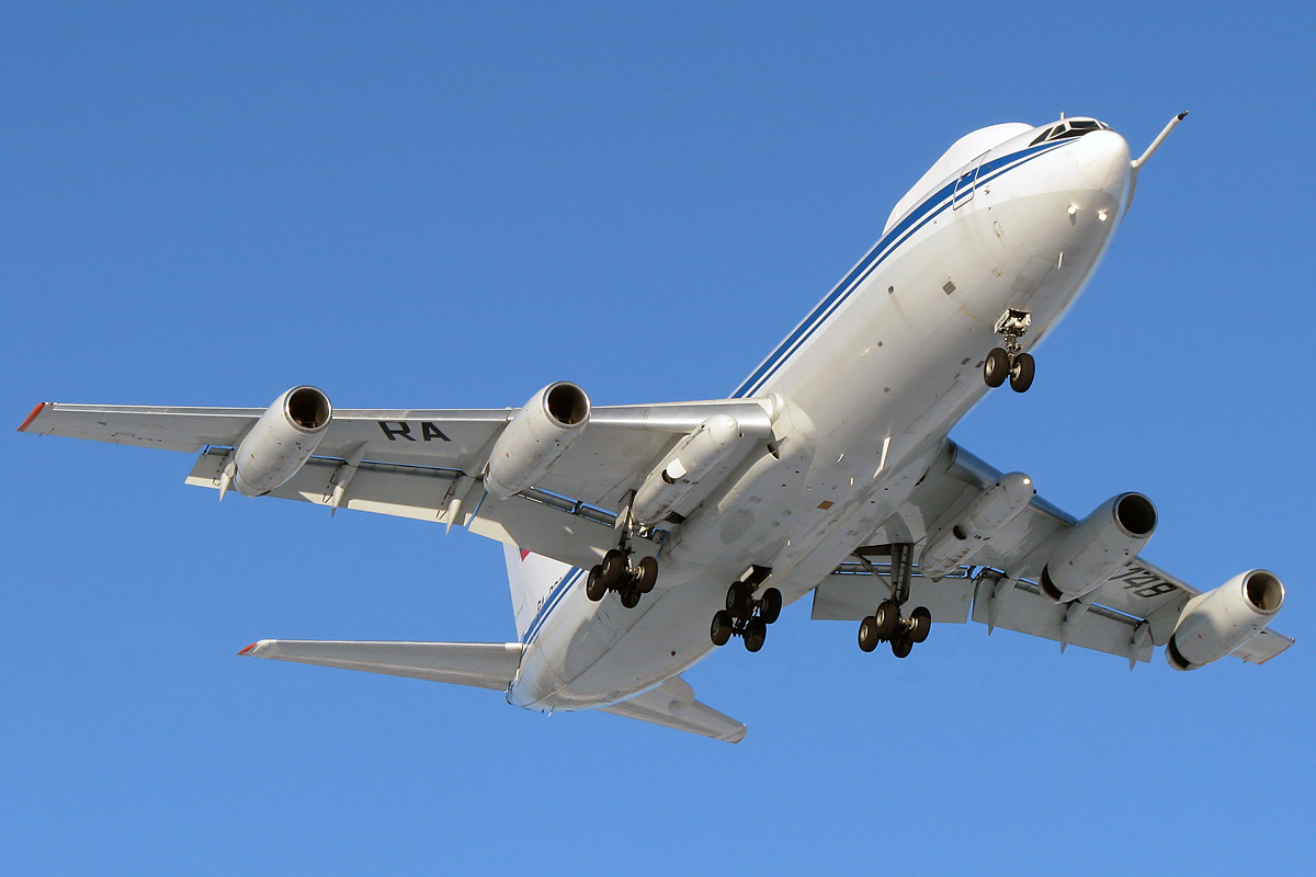 Ilyushin Il-80 airborne command post/communications relay aircraft